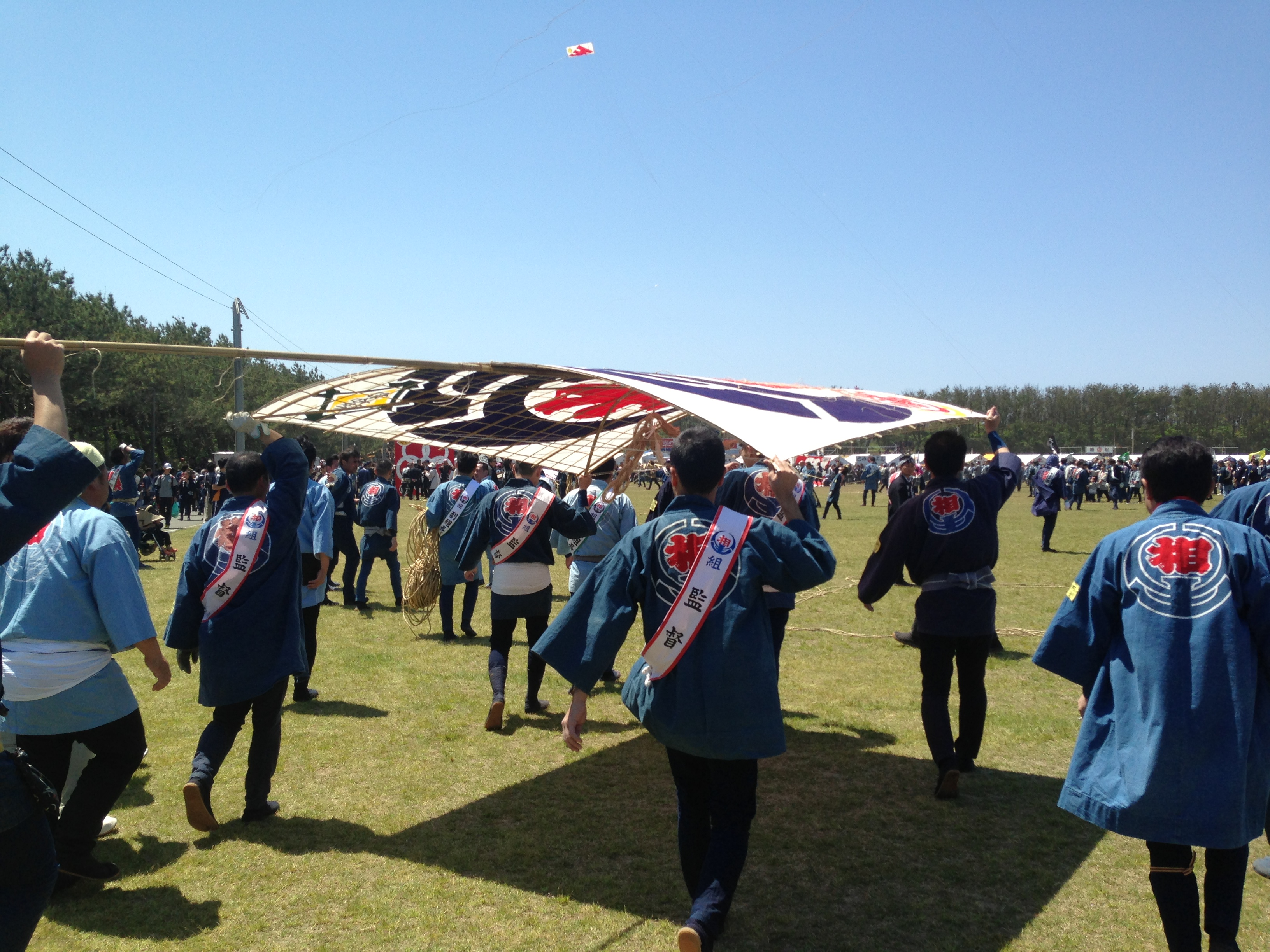 hamamatsu festival 1